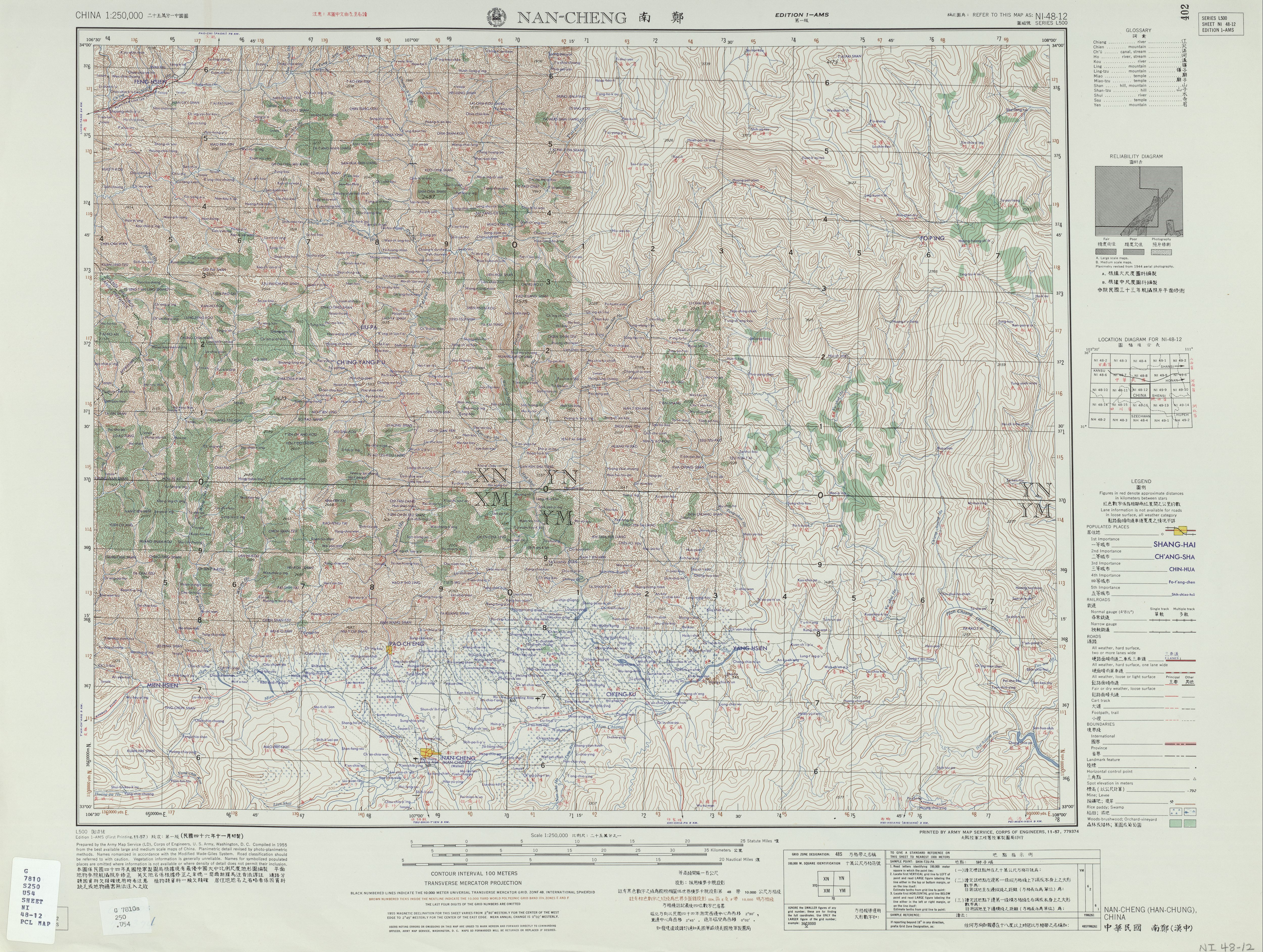 China AMS Topographic Maps